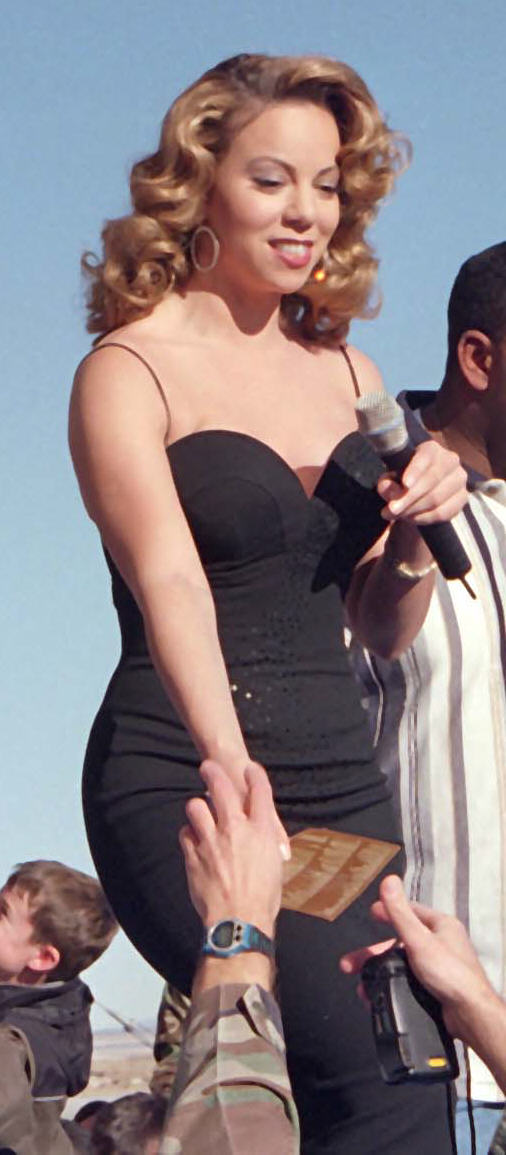 Mariah Carey takes time out of her video shoot to sing for the crowd during the taping of her video I Still Believe on December 11 and 12, 1998, at Edwards Air Force Base.